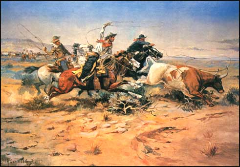 Painting "Herd Quitters"